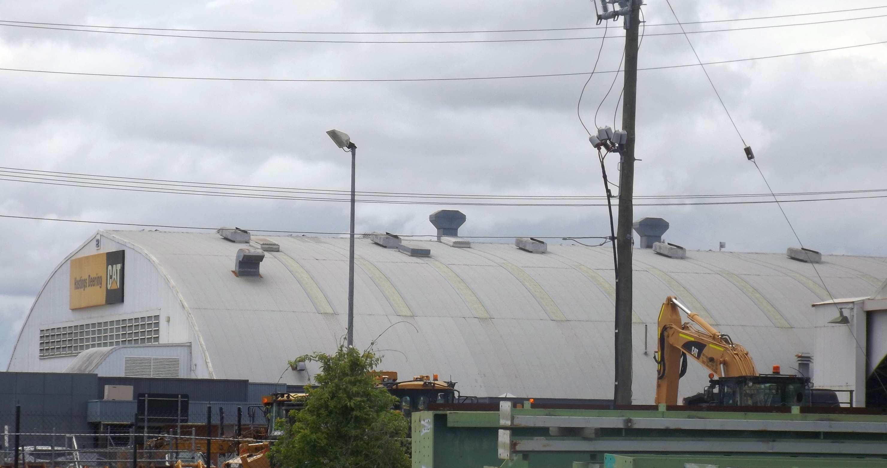 Photo of Igloo No. 3 at Archerfield, Brisbane, Queensland, Australia.